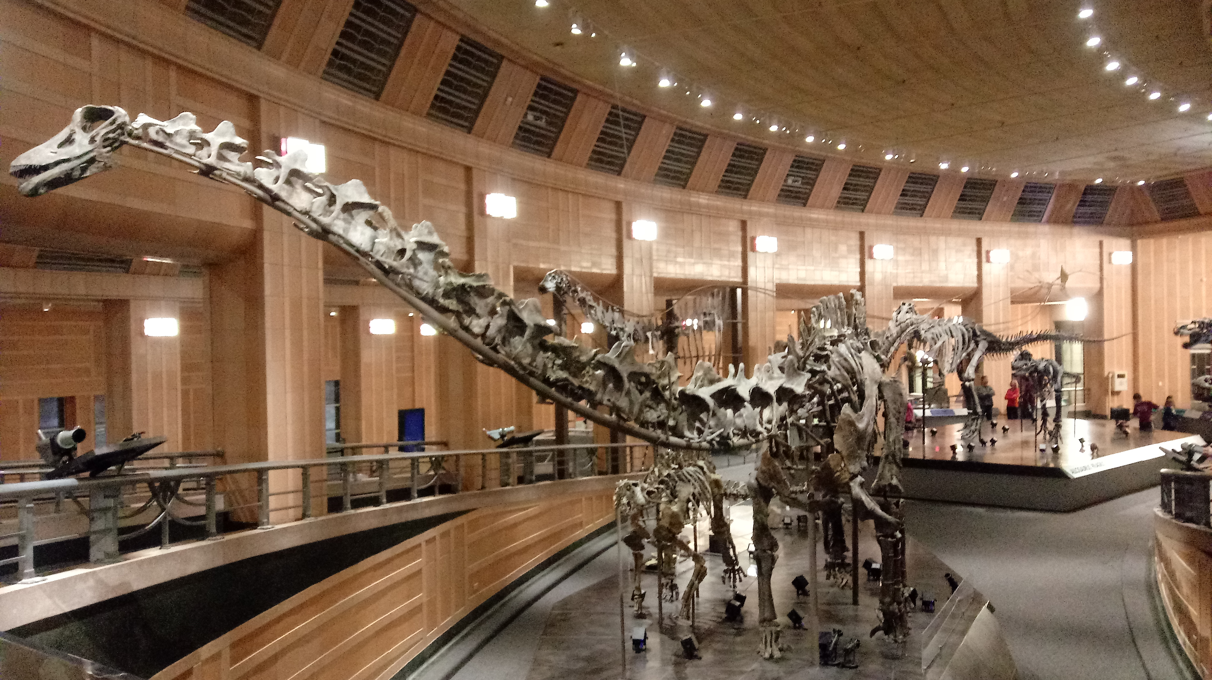 Skeleton of the dinosaur Galeamopus pabsti at the refurbished Cincinnati Museum Center at Union Terminal's Museum of Natural History